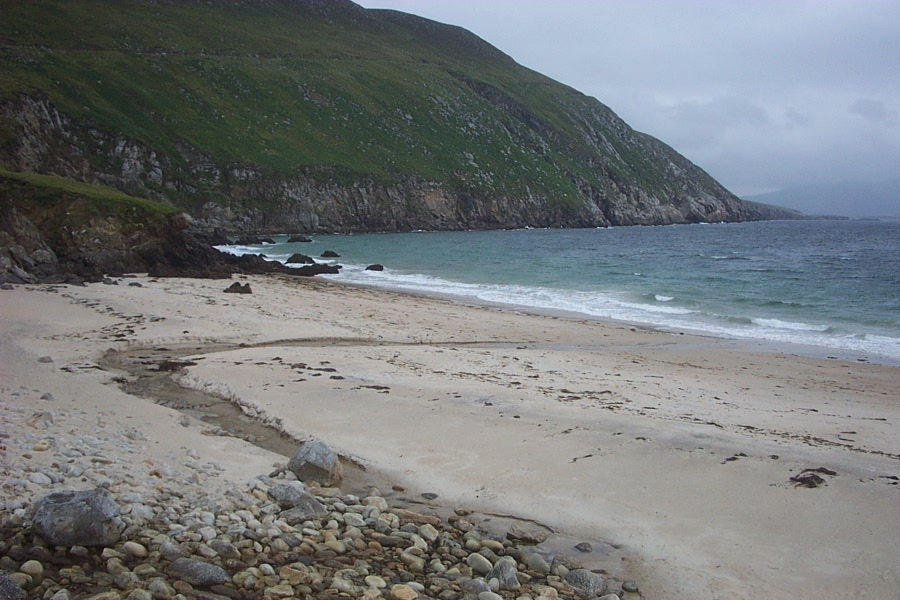 Achill Ireland Keem bay